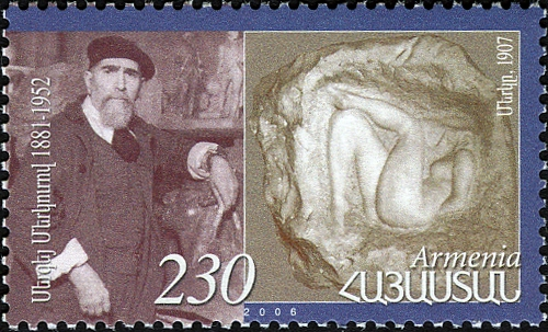 Stamp of Armenia